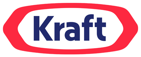 Logo of Kraft Foods.